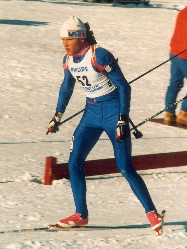 Gisle Fenne at the World Championships 1986 in Oslo.